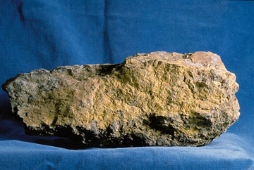 Uranium ore. English Wikipedia, original upload 3 August 2004 by Chris 73 Image:UraniumUSGOV.jpg